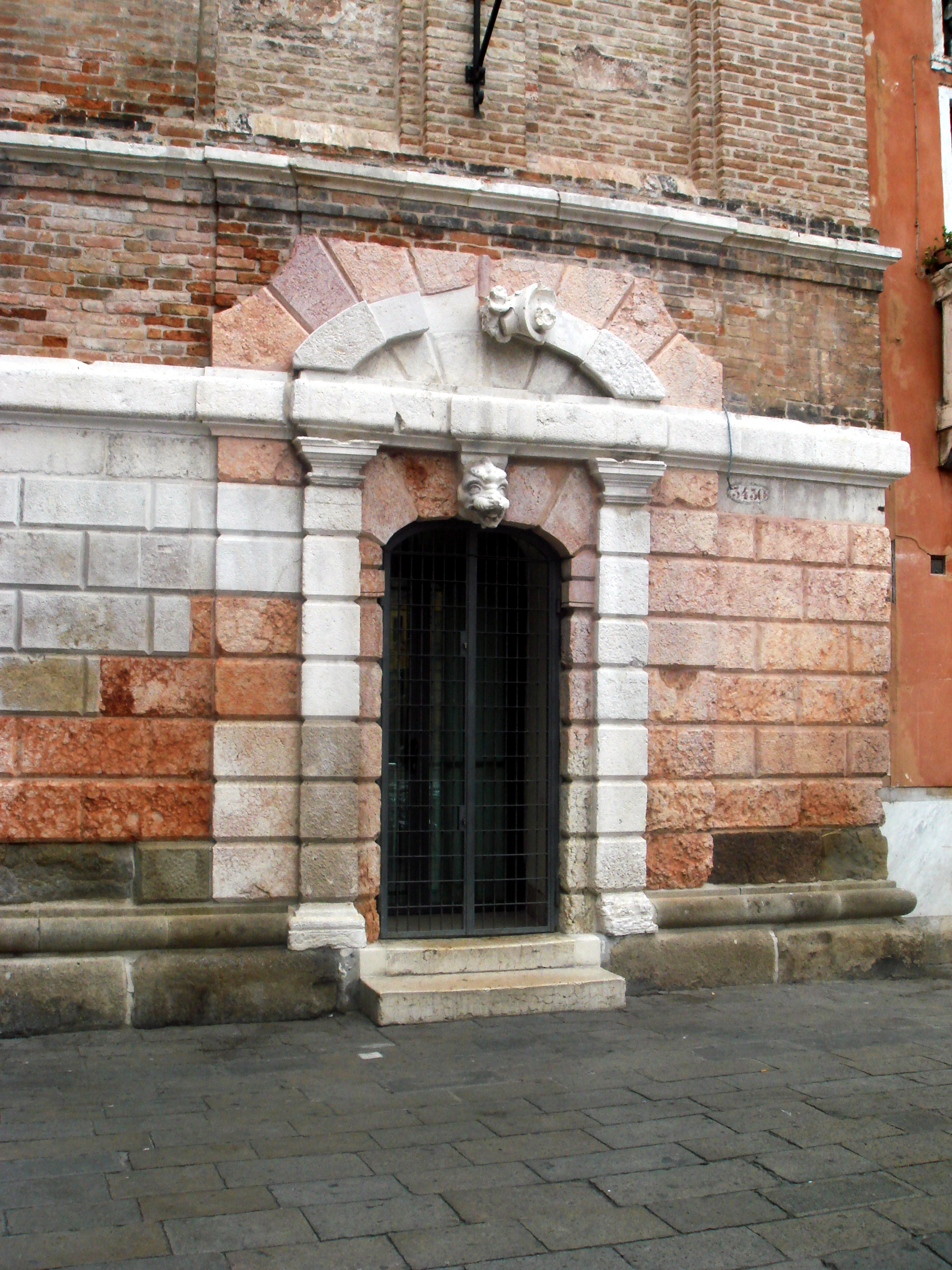 Venice, the portal to the belltower of Santa Margherita church in Campo Santa Margherita square. Picture by Giovanni Dall'Orto, August 8, 2007.